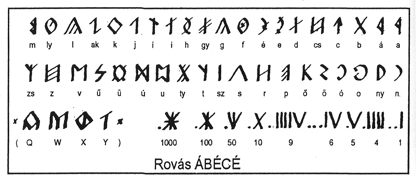 Szekely-Hungarian rovas alphabet from Sándor Vér, 1996. Rovas characters for Y, X, W, Q.